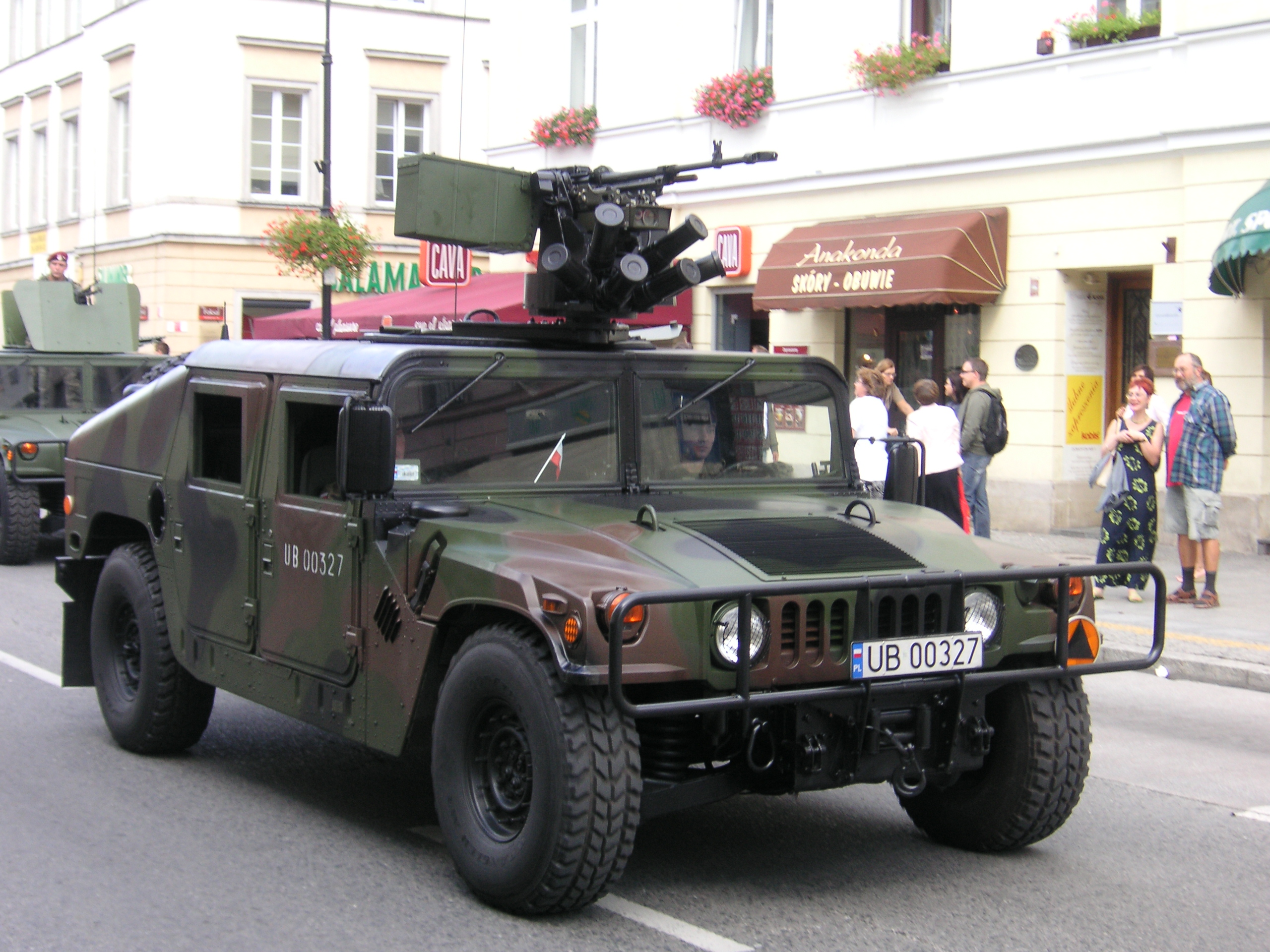 A military parade in Warsaw's Royal Road (Nowy Świat Street), commemorating the Feast of the Polish Army (August 15th) Humvees of the Polish Army (various types). (M1043A2 with Tumak-4 turret with 12.7 mm WKM-Bz machine gun, of the 18th Bielsko Airborne and Assault Battalion - 18 Bielski Batalion Desantowo-Szturmowy. This is the first vehicle in this variant, tested in 2006.)